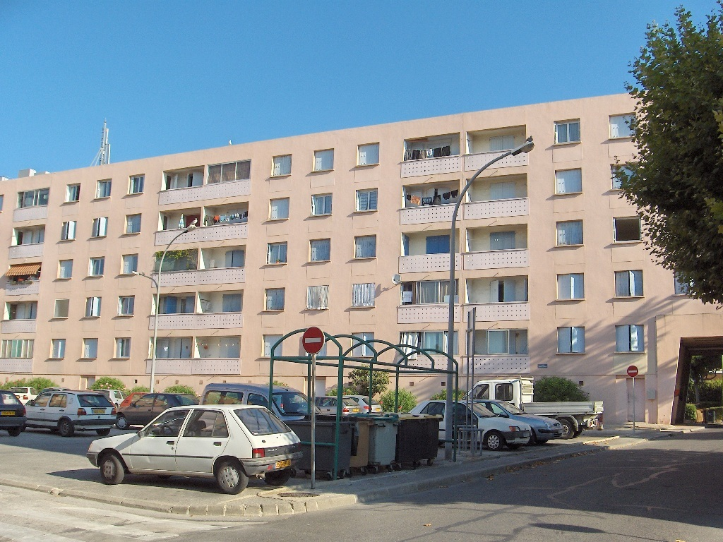 Martigues — HLM, place Auguste Renoir (district of Ferrières)